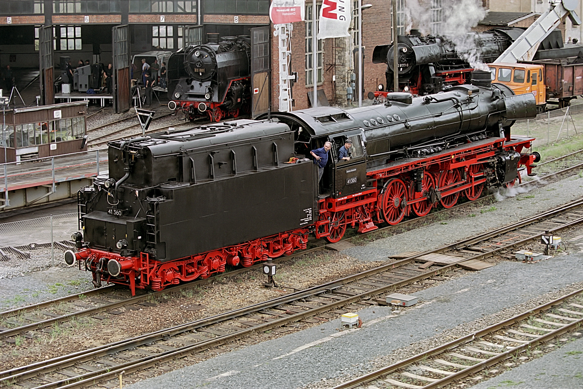 Steam Locomotive BR41 360, in Dresden at the yearly steam locomotive meeting from a nearby bridge.